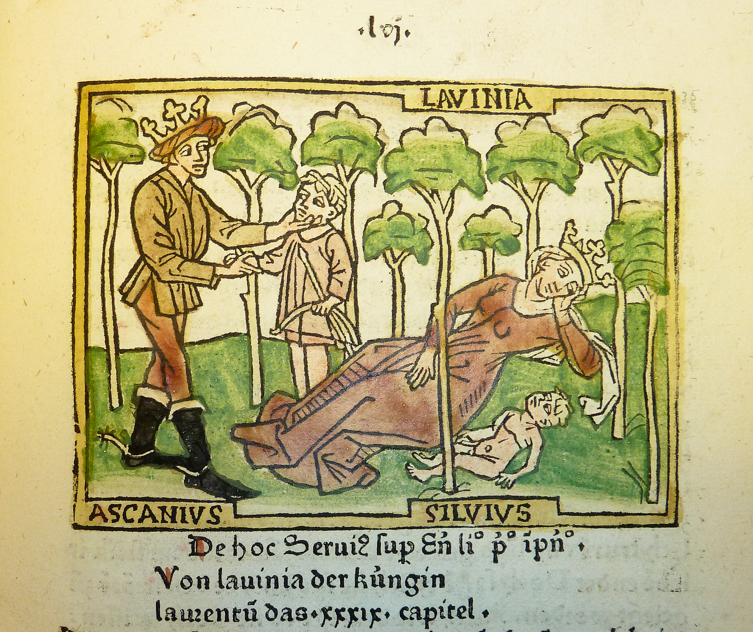 Woodcut illustration (leaf [g]6r, f. lvj) of Ascanius greeting his stepbrother Silvius (left) and Lavinia with her newborn son Silvius (right), hand-colored in red, green, yellow and black, from an incunable German translation by Heinrich Steinhöwel of Giovanni Boccaccio's De mulieribus claris, printed by Johannes Zainer at Ulm ca. 1474 (cf. ISTC ib00720000). One of 76 woodcut illustrations (1 on leaf [e]8v dated 1473), each 80 x 110 mm., depicting scenes from the life of the women chronicled (for a full list of subjects, cf. W.L. Schreiber, Handbuch der Holz- und Metallschnitte des XV. Jahrhunderts (Nendeln: Kraus Reprints, 1969), no. 3506). "Pour la première moitie le nom se trouve inscrit à côte de la tête de chaque femme, pour le reste il es ajouté entre les deux réglettes. Il n'y en a que trois, qui n'ont qu'un seul trait carré."--Schreiber. Established form: Zainer, Johannes, ‡d d. 1541?. Established form: Ascanius (Legendary character) Penn Libraries call number: Inc B-720 All images from this book Penn Libraries catalog record